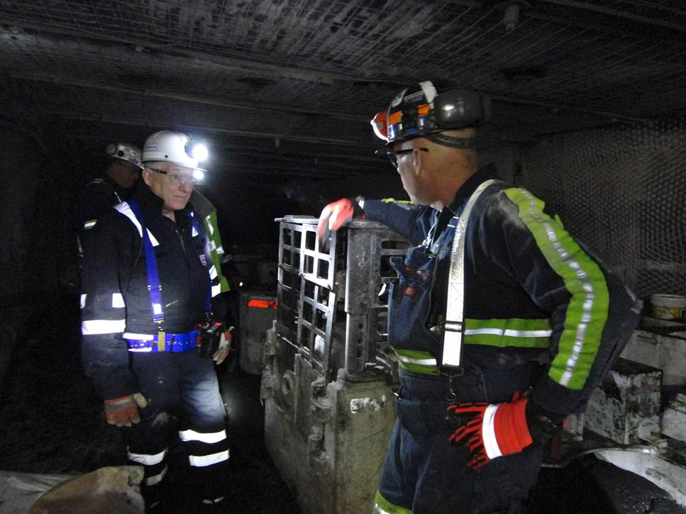 Photo: Bailey mine personnel demonstrate mine equipment to MSHA Assistant Secretary Joseph Main.